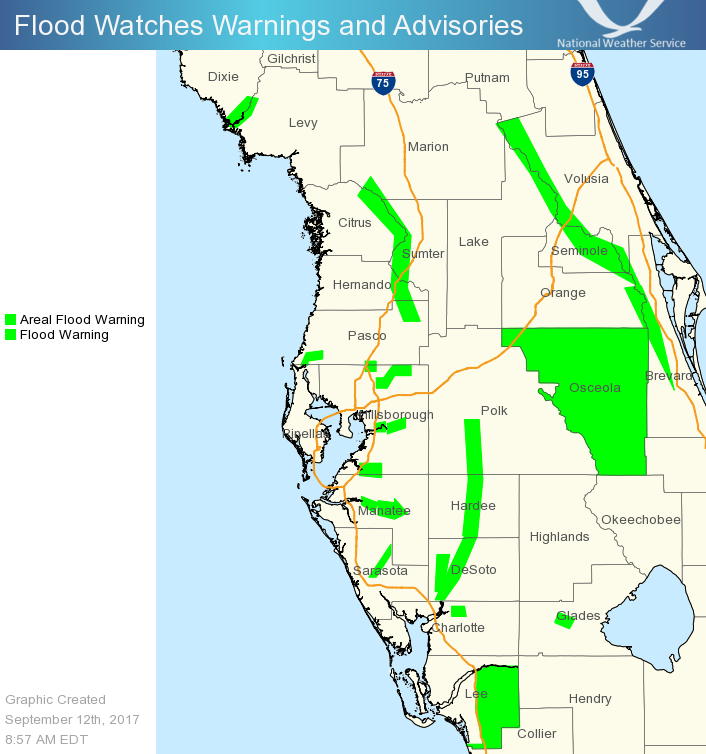 Flood warnings issued in Central Florida on September 12, 2017, after heavy rainfall from Hurricane Irma